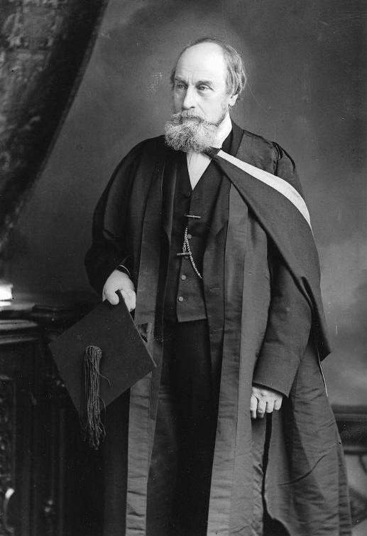 Photograph, Sir William Dawson, Montreal, QC, 1884, Wm. Notman & Son, Silver salts on glass - Gelatin dry plate process - 17 x 12 cm